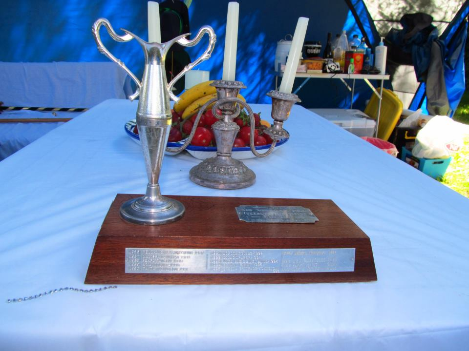 Vinegar Hill Trophy, presented to Queens of Vinegar Hill since 1985